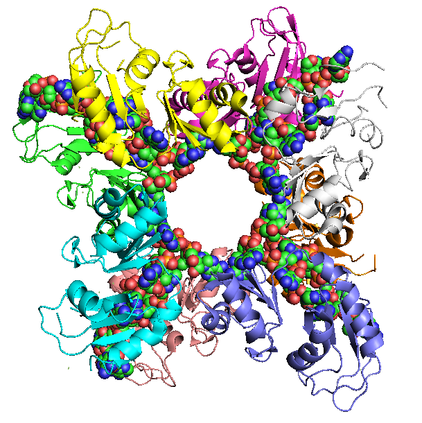 PDB 1CVJ,Rendered using Pymol